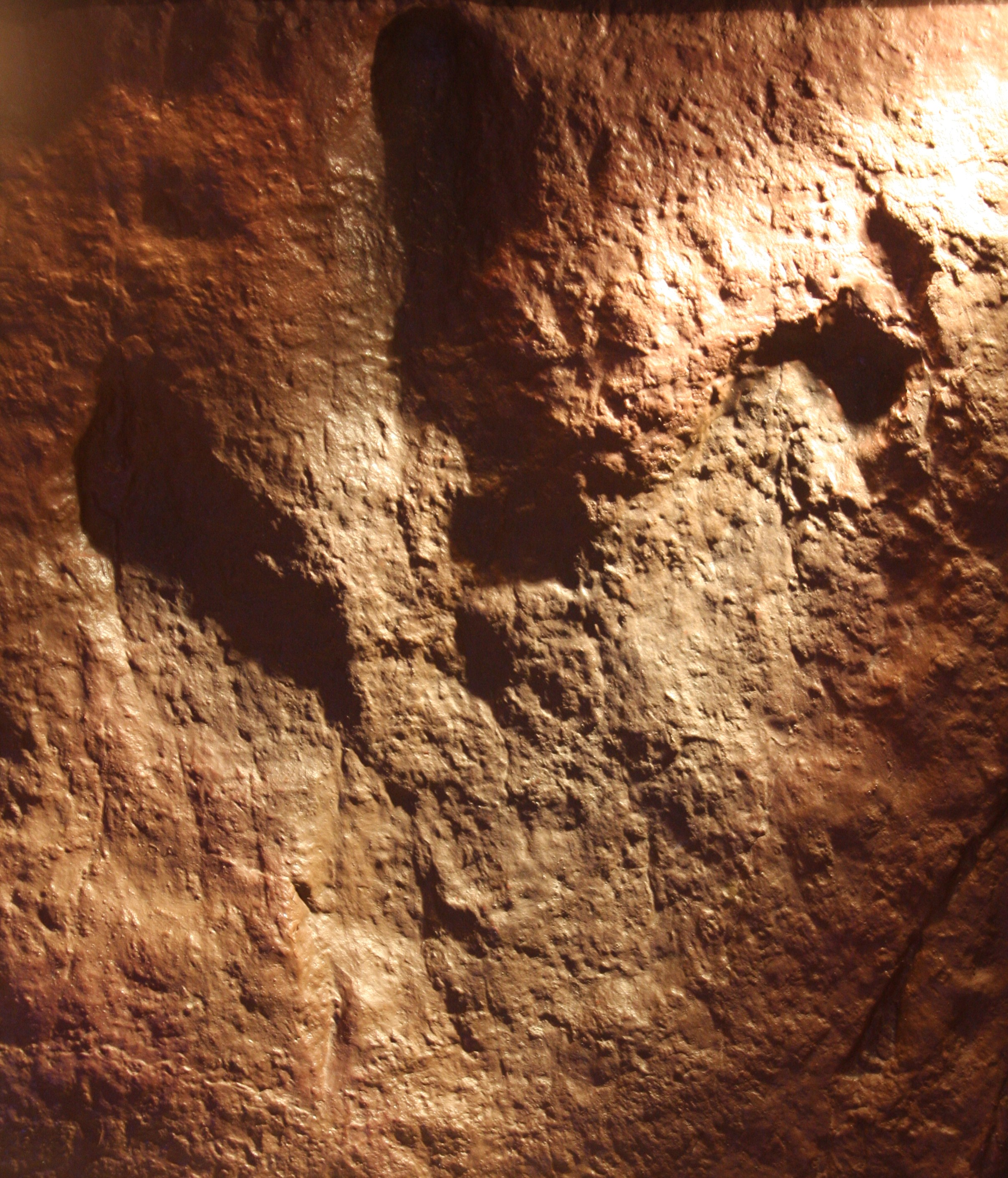 Iguanodon footprint found at Svalbard, 1960. (Norway). Exhibit at display in Polarmuseet, Tromsö.